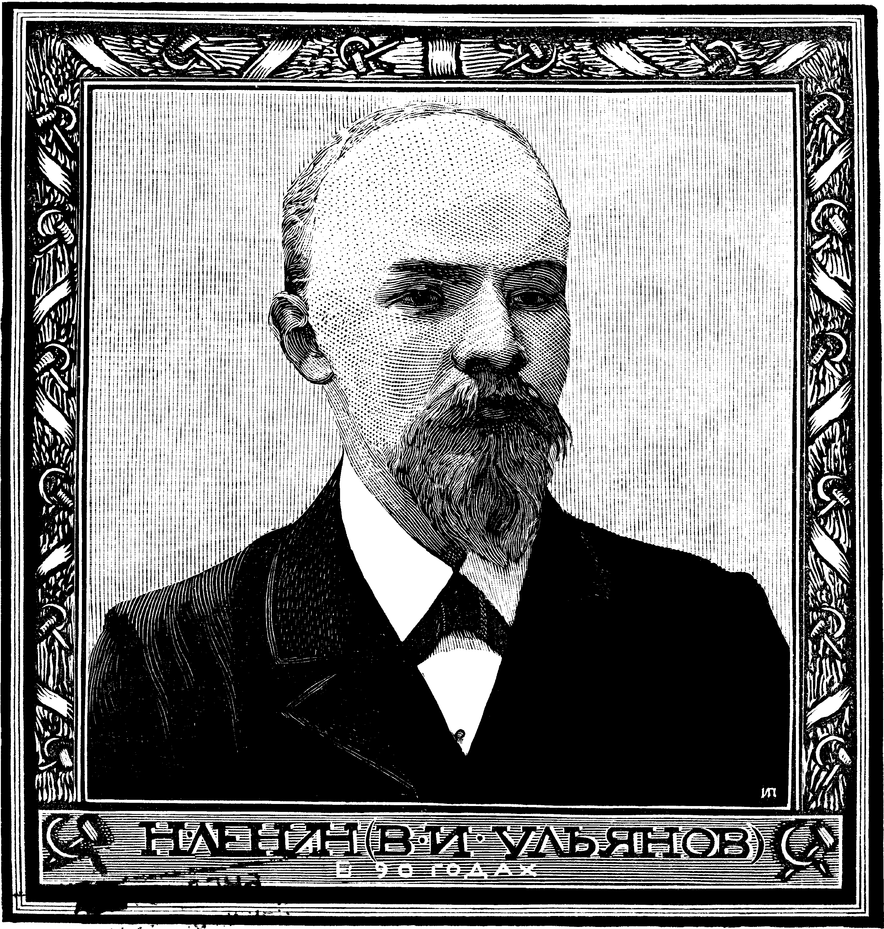 Vladimir Lenin in the 1890-ies.